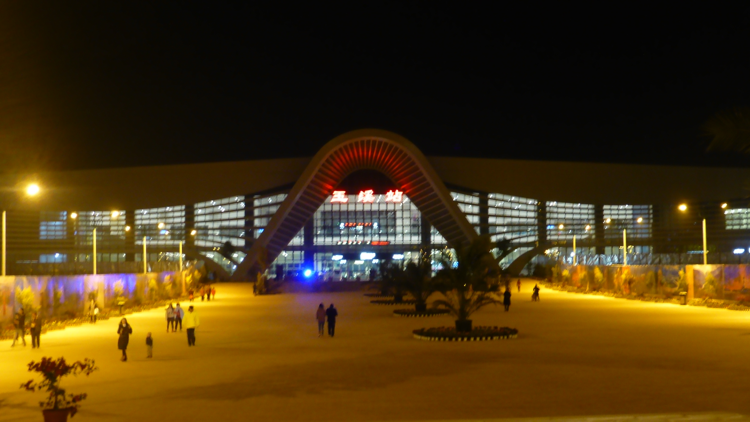 The new Yuxi Railway Station, on its first day of operation.